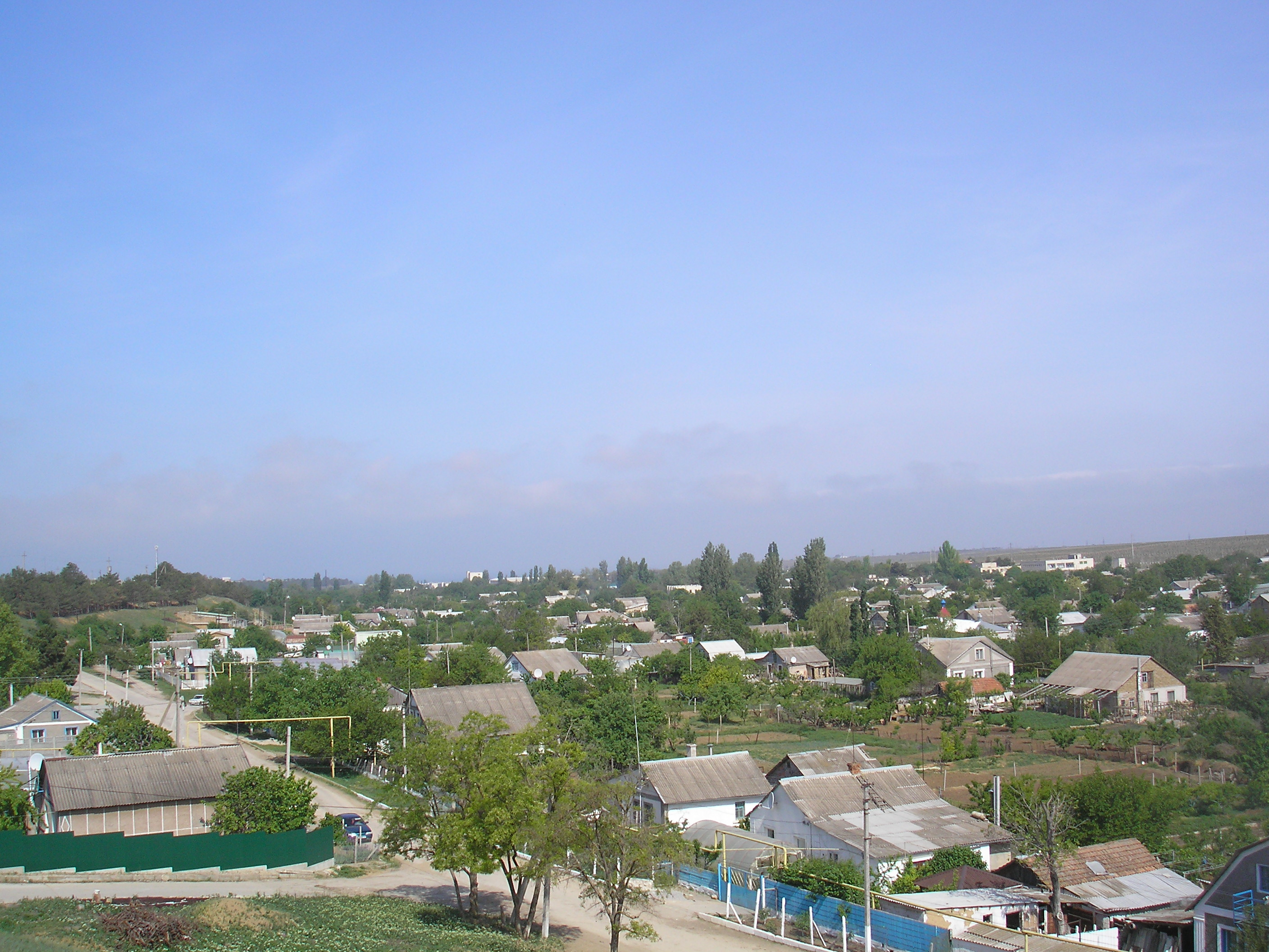 village Adjibulat, Bakhchisaray district, Crimea